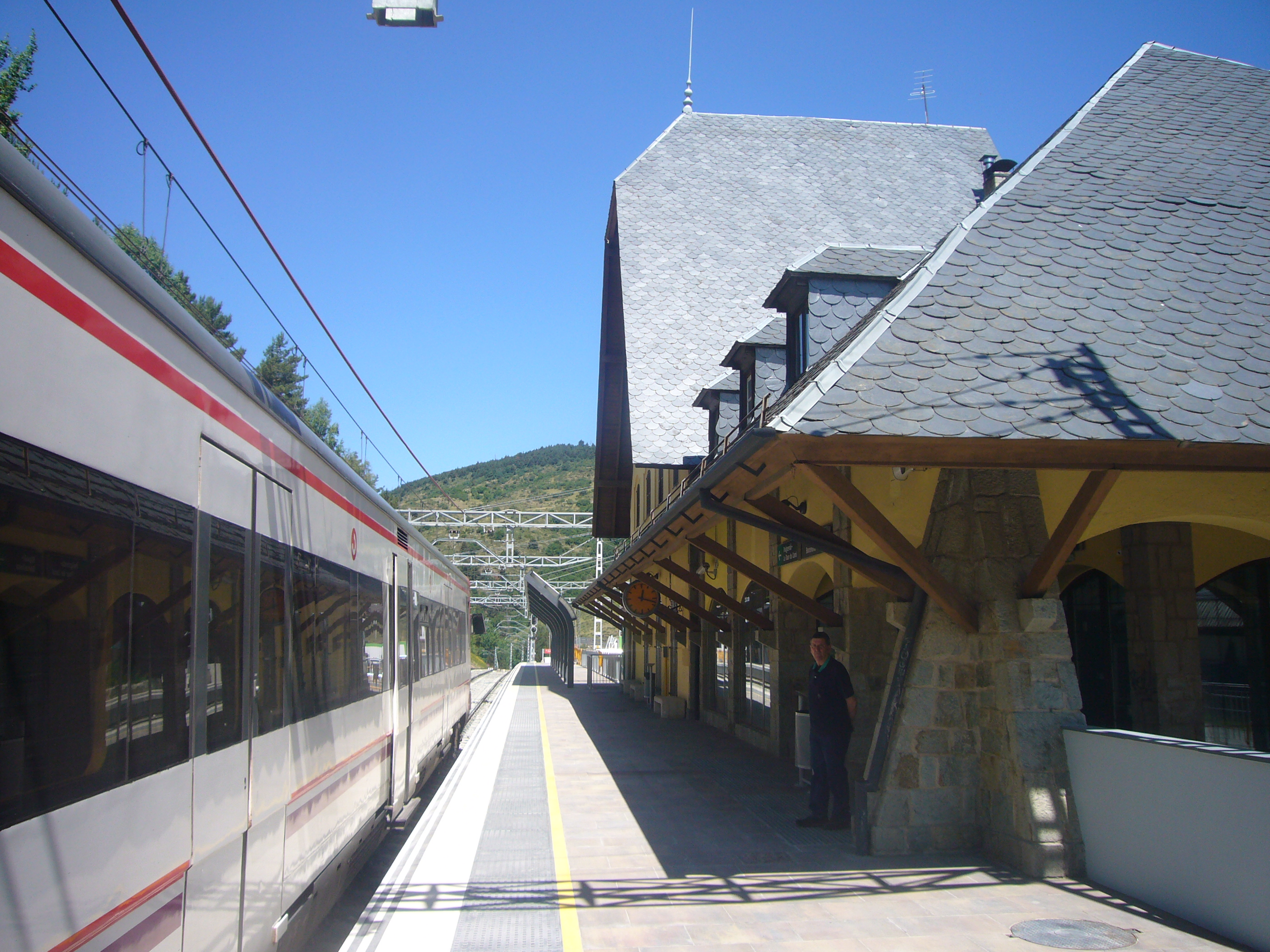 Train station of La Molina (Alp)